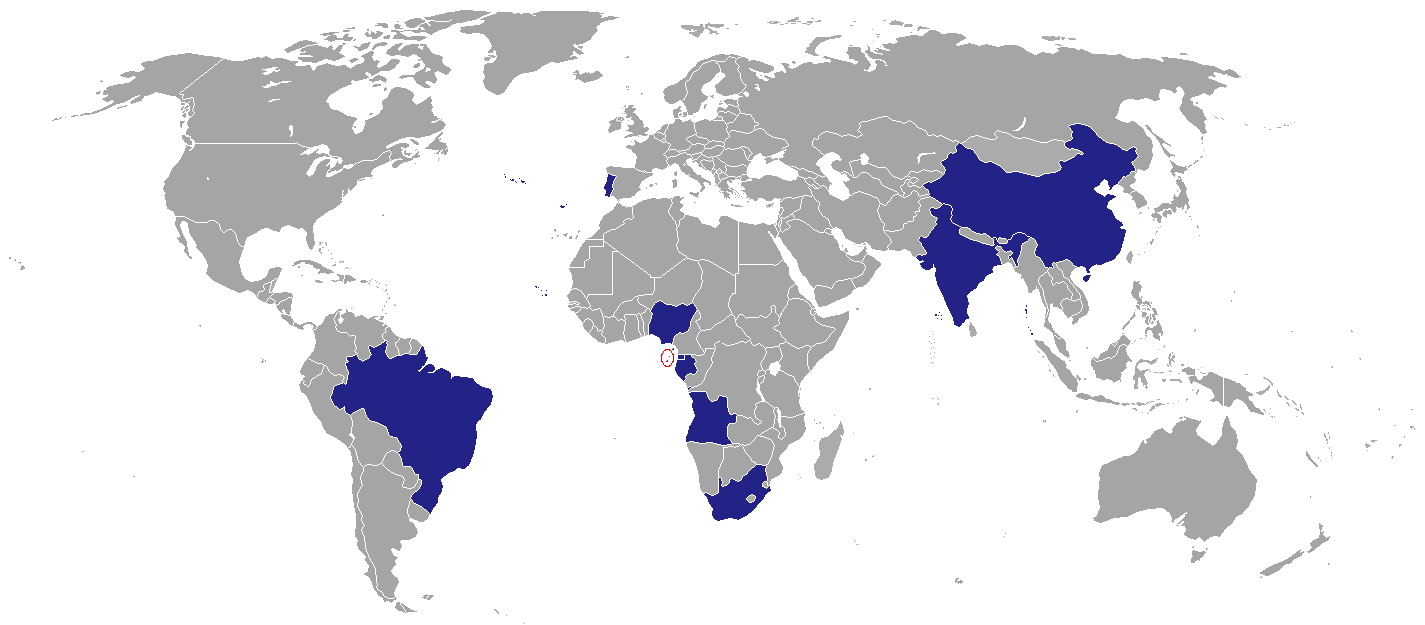 Map of diplomatic missions in São Tomé and Príncipe